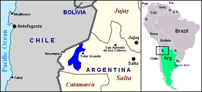 Locator map of the Salar de Arizaro in Salta Province, Argentina, shown in blue. The names of Argentine provinces and some places and cities are shown in the map. On the right side a map of South America highlighting Argentina shows the location of salt flat (in blue) within the continent.